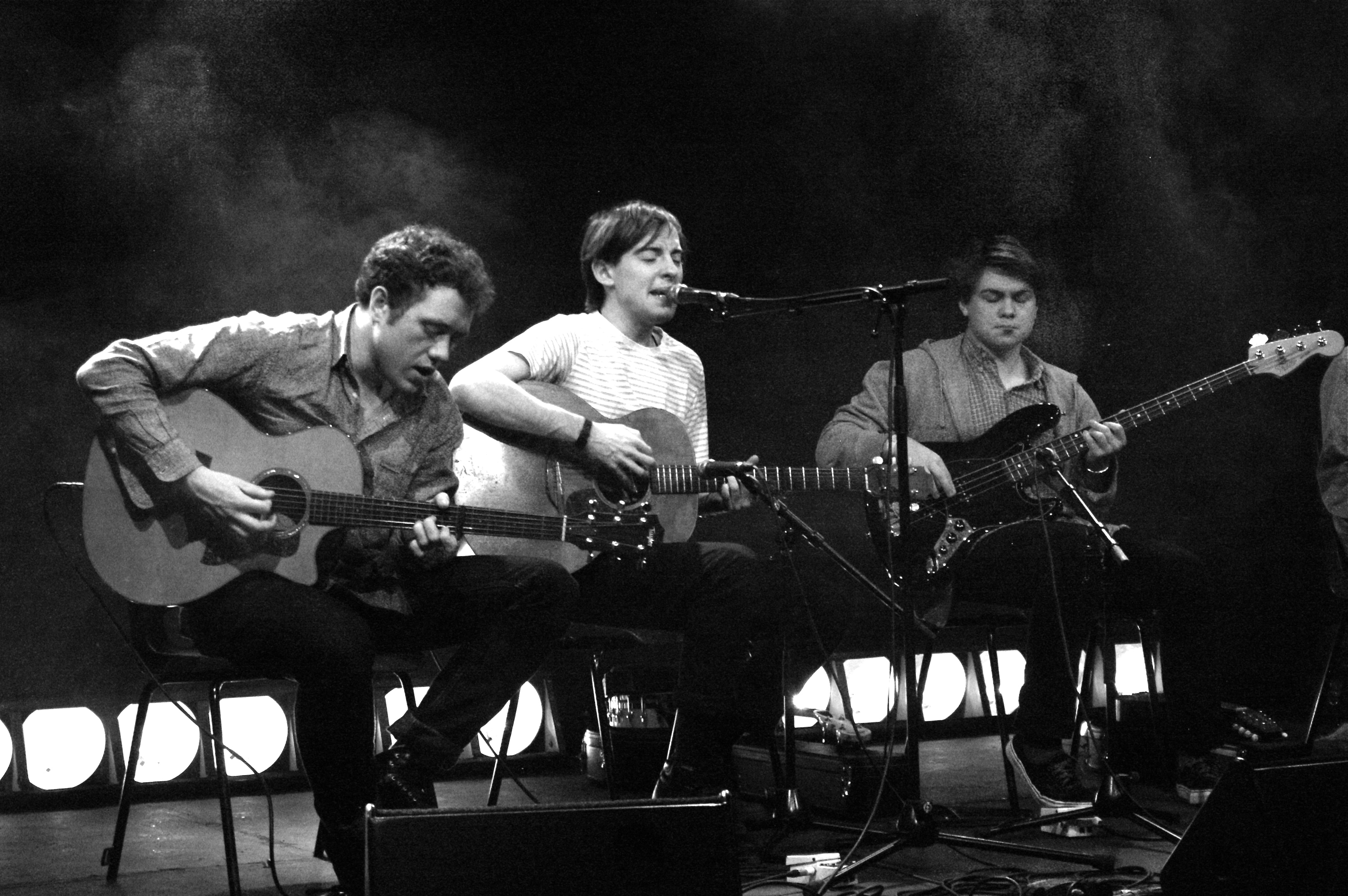 Bombay Bicycle Club playing a short free gig at Nottingham University.